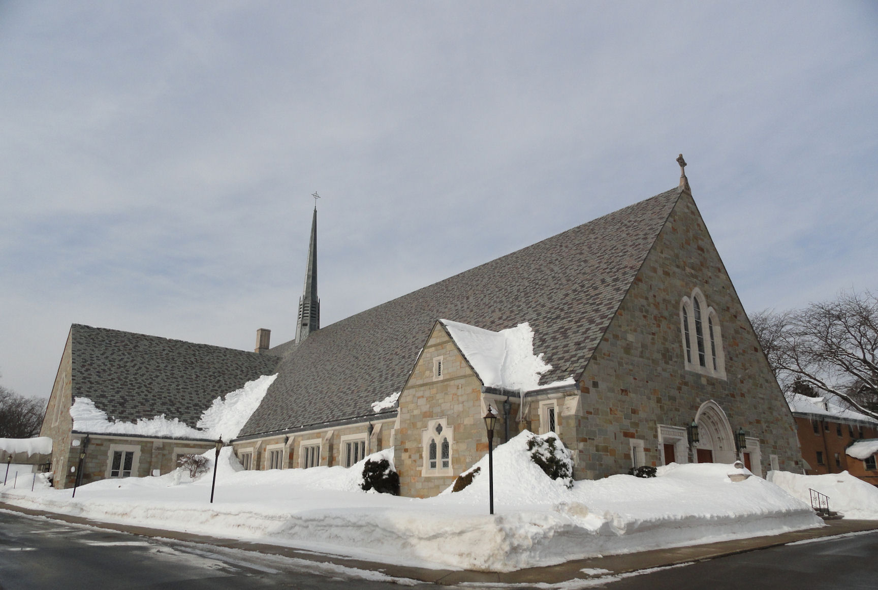 St. Teresa Church, Trumbull, Connecticut, J. Gerald Phelan, Architect